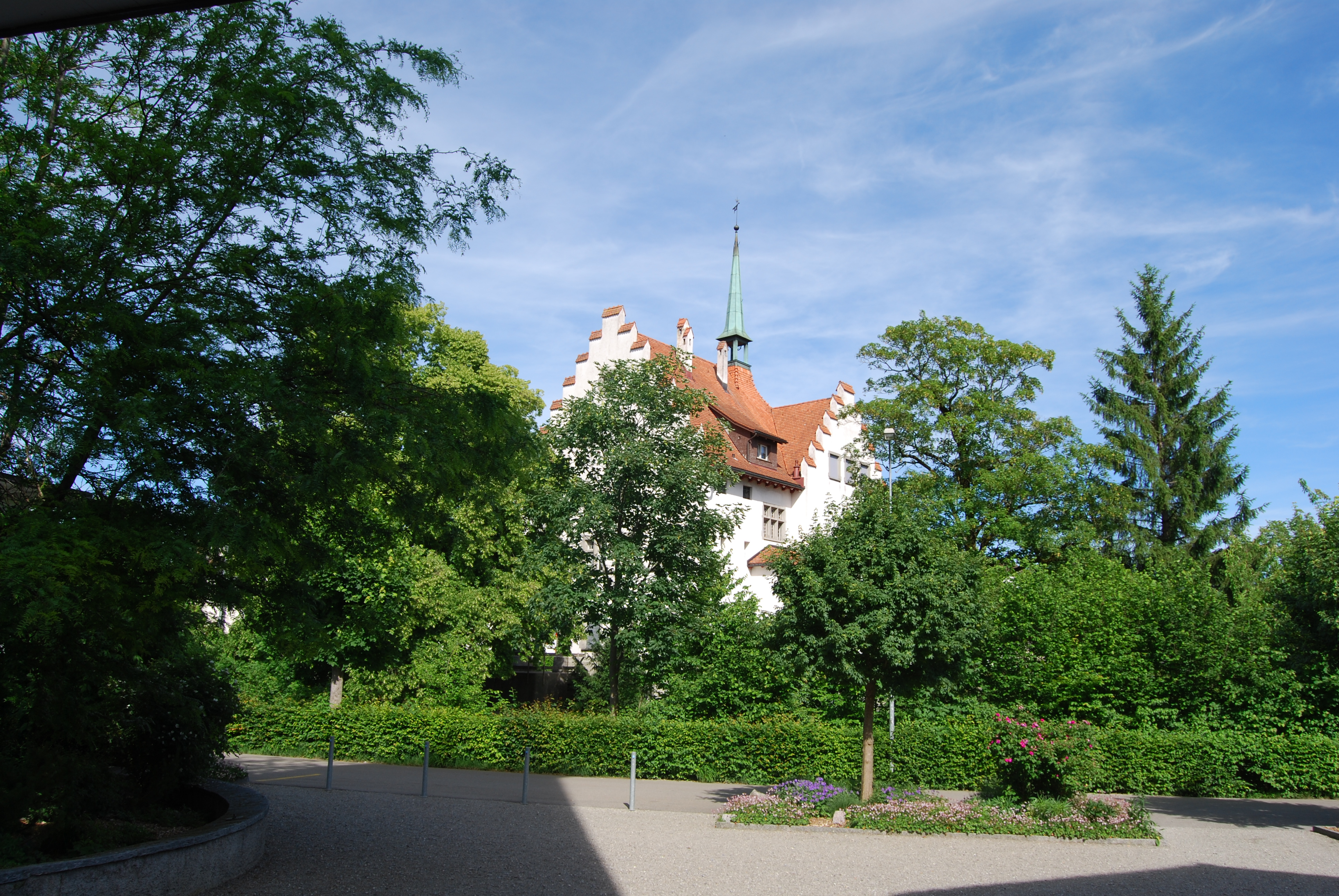 Tribunal Münchwilen, canton of Thurgovia, Switzerland